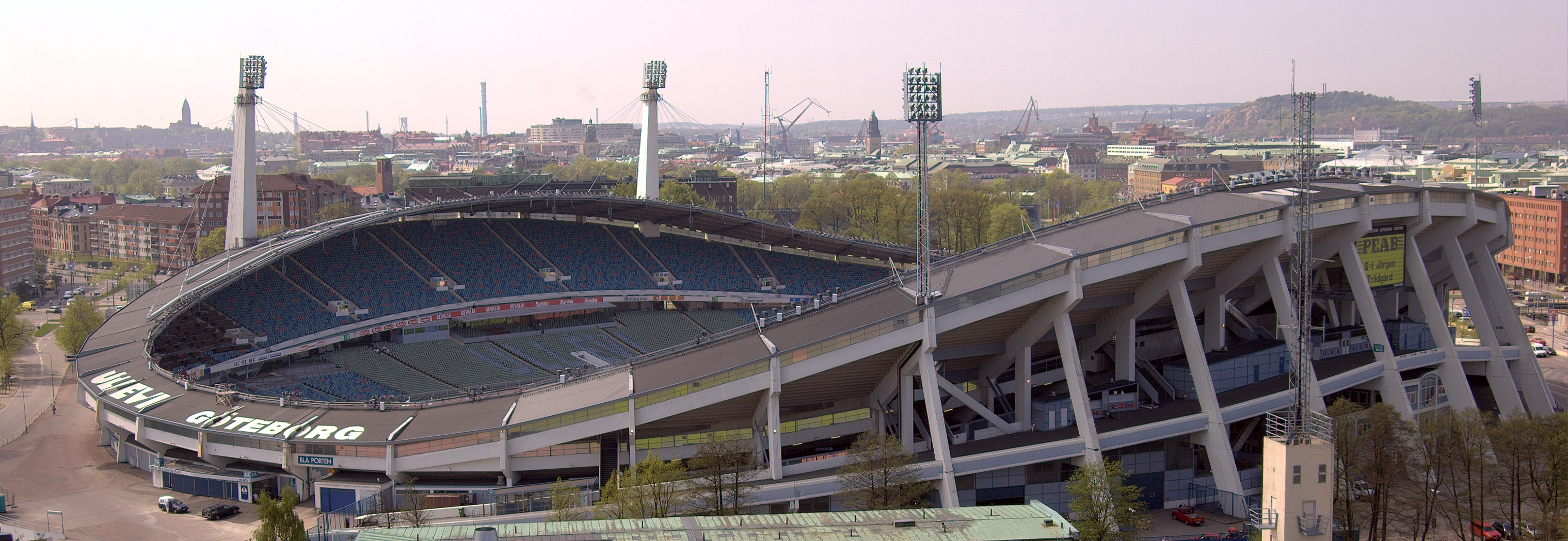 This is the stadium Ullevi (or more specifically Nya Ullevi, which translates literally to The new Ullevi). Location: Shot from the top of the Canon building in Gårda, Gothenburg, Sweden. Camera: Nikon D50 using the standard kit lens (18-55mm).